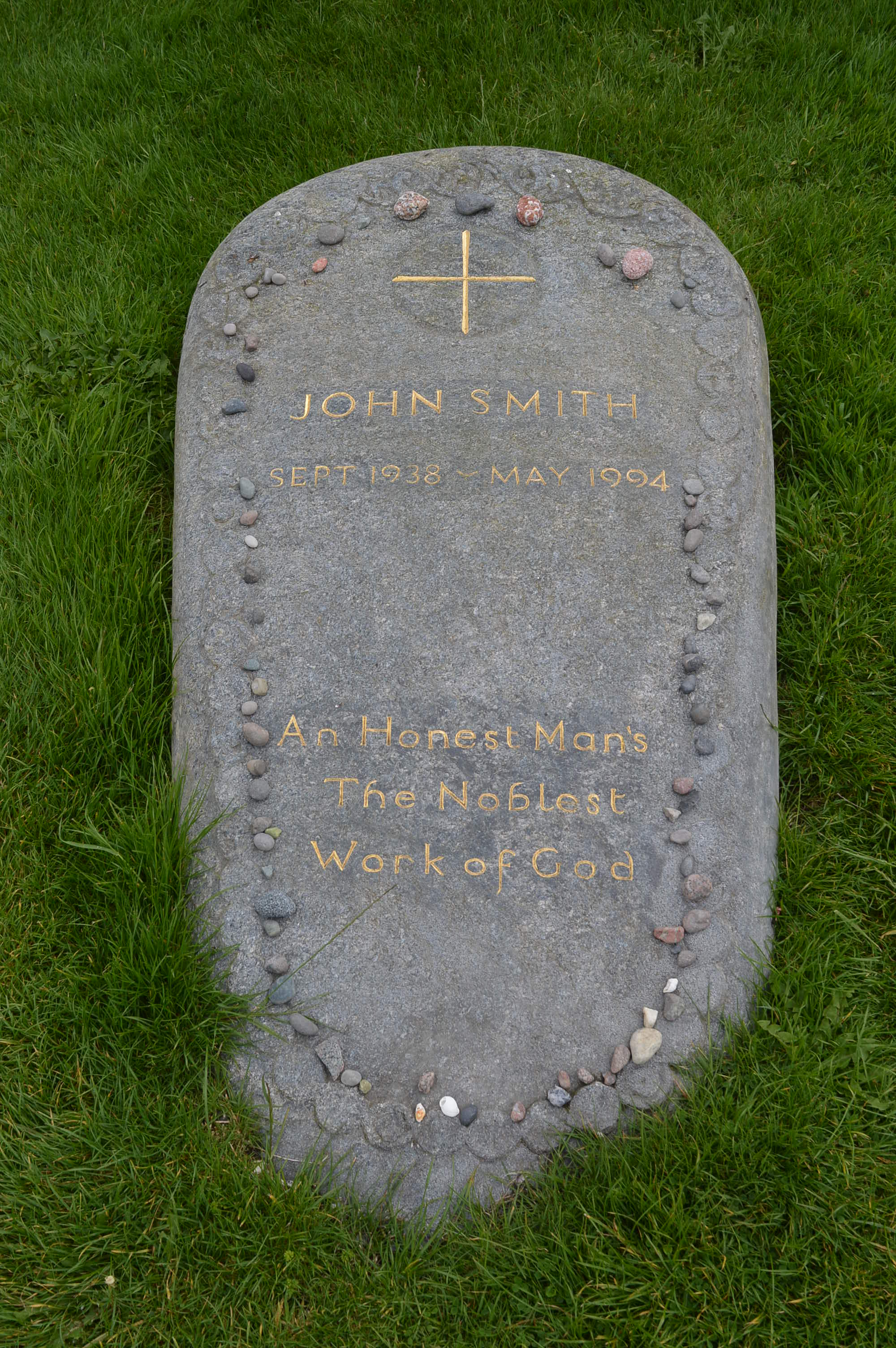 Gravestone of late leader of the Labour party, John Smith, on the island of Iona, Scotland.